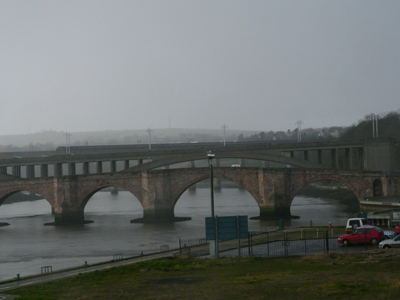 A GNER Intercity 225 service crosses the Royal Border Bridge south of Berwick-upon-Tweed station on 25 March 2005. In the foreground are Berwick Bridge and the Royal Tweed Bridge.